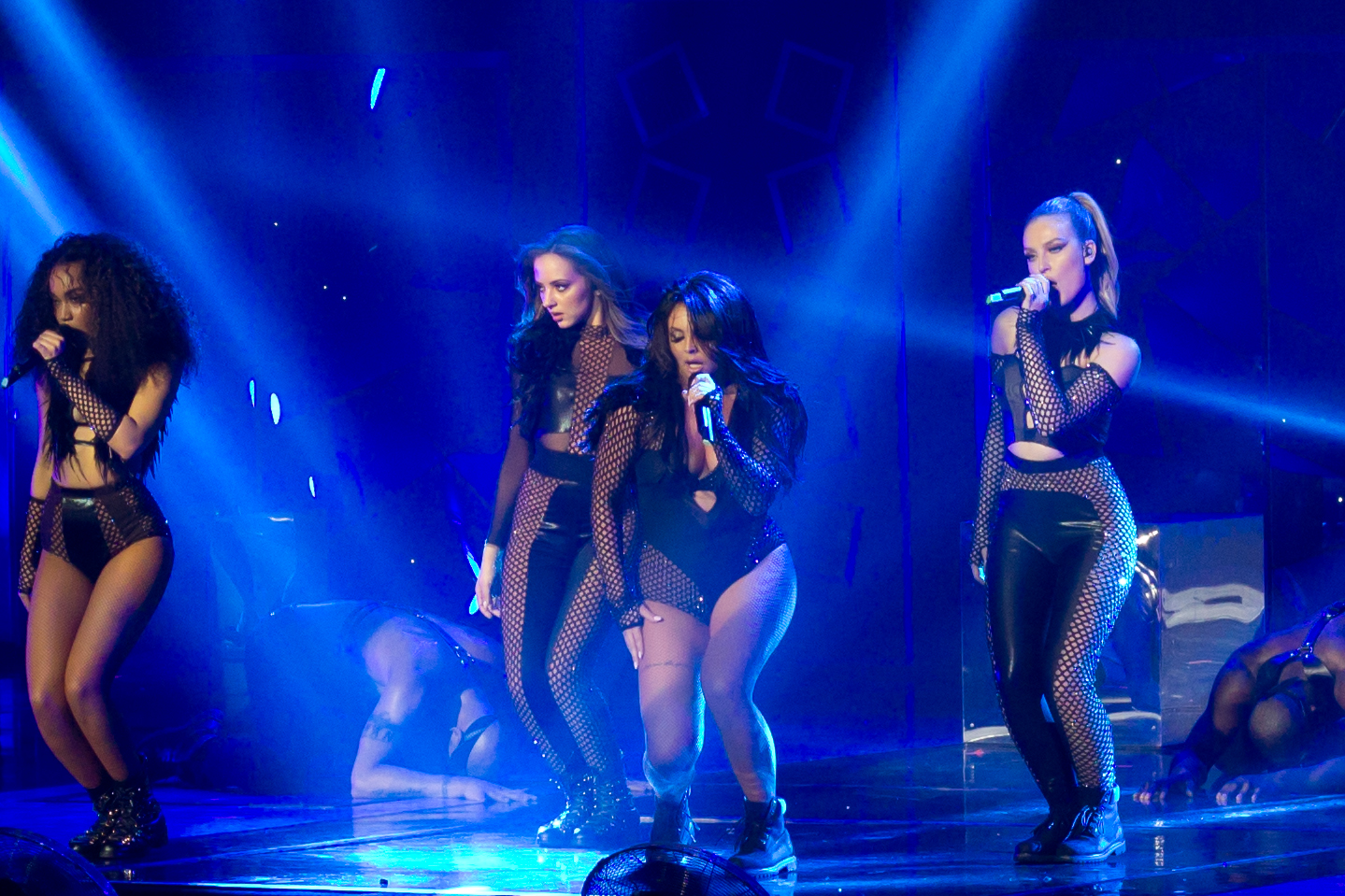 Little Mix